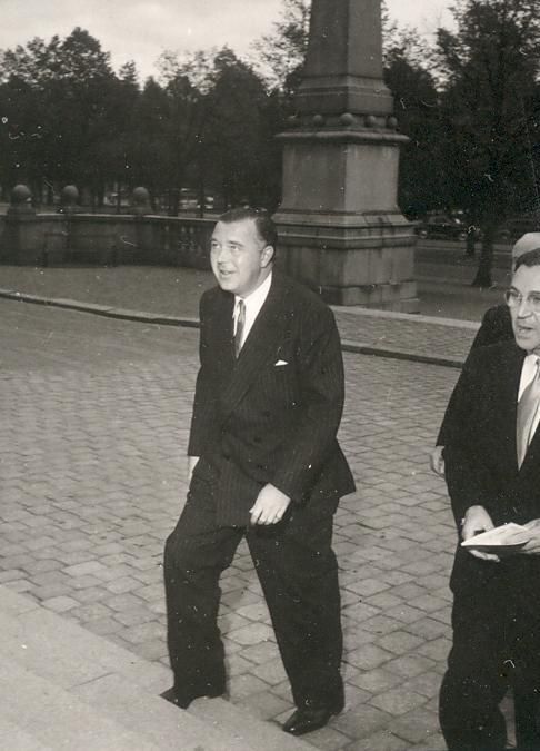 Prince Bertil of Sweden arrives for ceremonyPlace: Nordiska Museet, Sweden